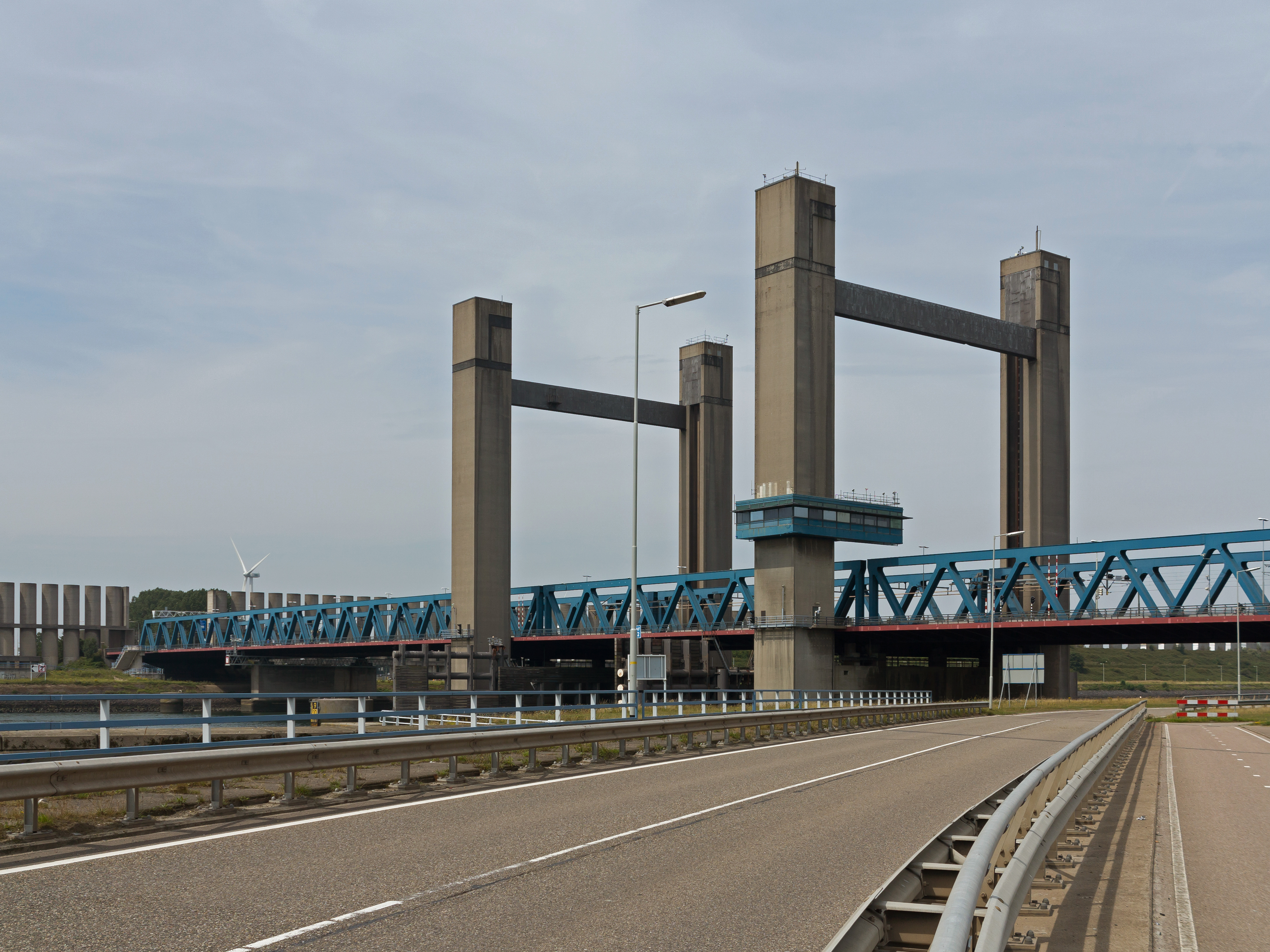 near Rozenburg, bridge: de Calandbrug